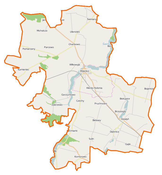 Map of Gmina Kłecko, Poland This map of Kłecko (gmina) was created from OpenStreetMap project data, collected by the community. This map may be incomplete, and may contain errors. Don't rely solely on it for navigation. Border coordinates52.695117.3062←↕→17.542452.5396